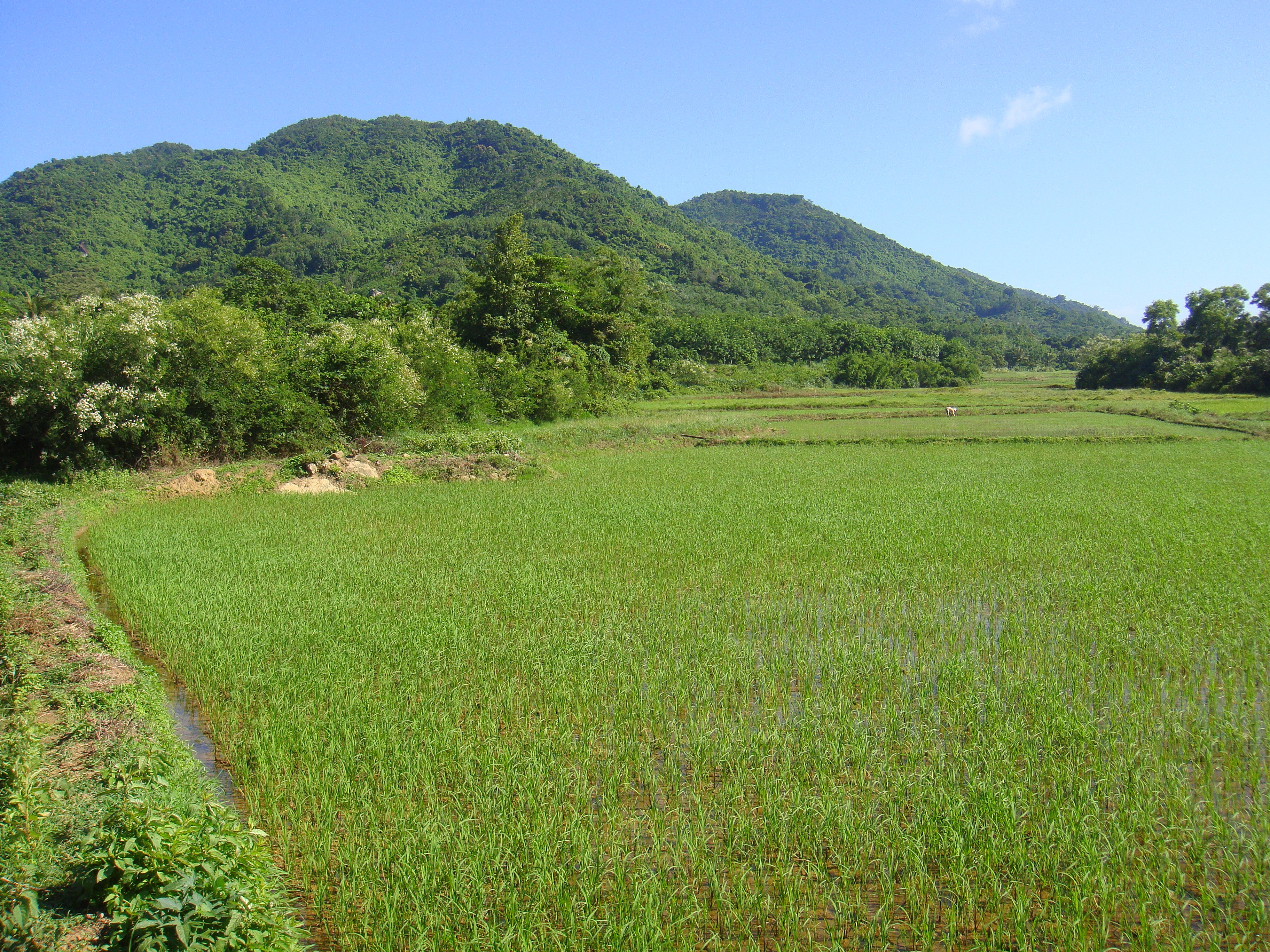 Near Xinlong, Hainan, China